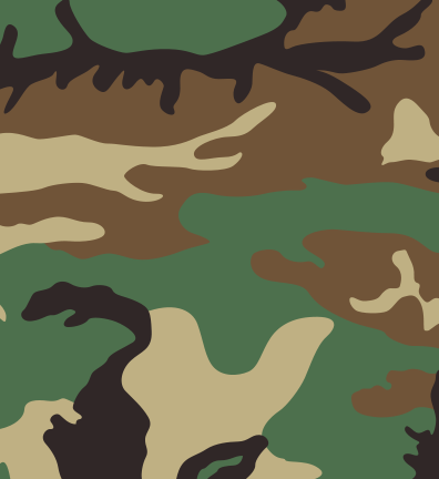 M81 Woodland pattern